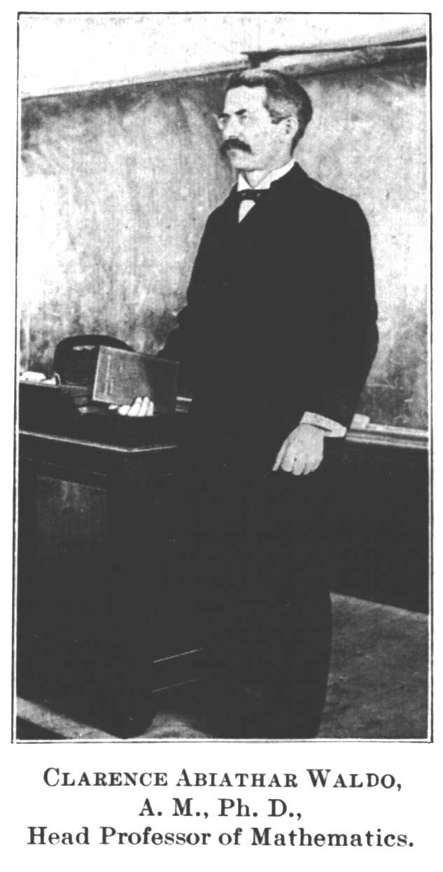 Professor C. A. Waldo, from the 1899 Purdue yearbook. Image